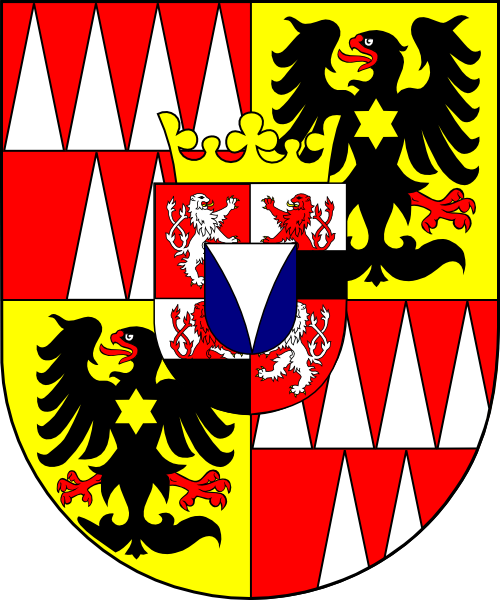 Coat of arms (shield only) of Karl von Liechtenstein-Kastelkorn, bishop of Olomouc, Czech Republic (1664 - 1695). Coat of arms (shield only) of Jakob Ernst von Liechtenstein-Kastelkorn, bishop of Seckau, Austria (1728 - 1745), bishop of Olomouc, Czech Republic (1739 - 1745), archbishop of Salzburg (1745 - 1747). COA used in Olomouc.